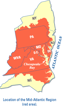 Mid-Atlantic Region location map from Earl A. Greene et al. "Ground-Water Vulnerability to Nitrate Contamination in the Mid-Atlantic Region". USGS Fact Sheet FS 2004-3067. 2005. Retrieved 25 April 2013.